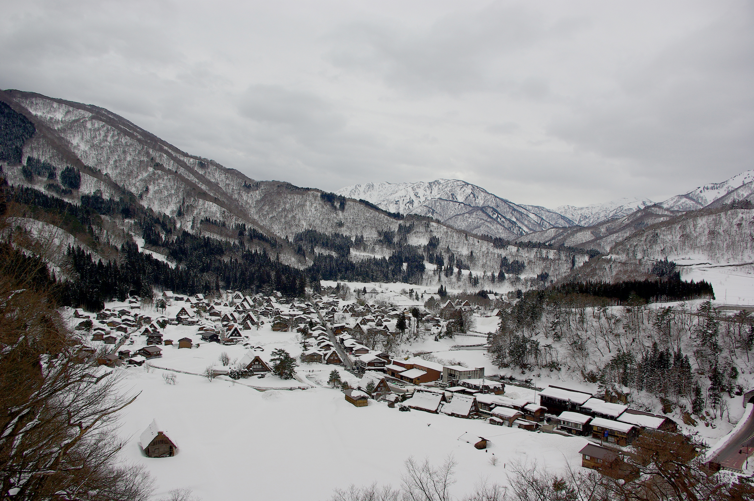 World's cultural heritage_SIRAKAWA-GO Of the winter